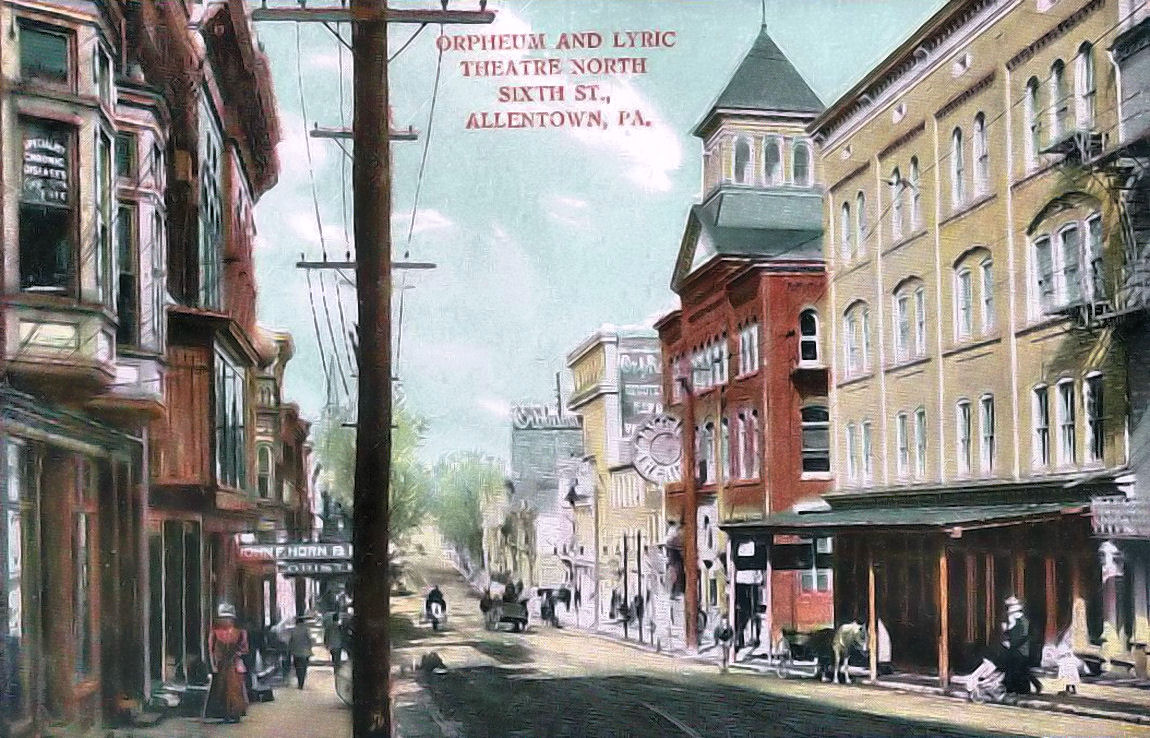 1900 - Orpheum and Lyric Theaters